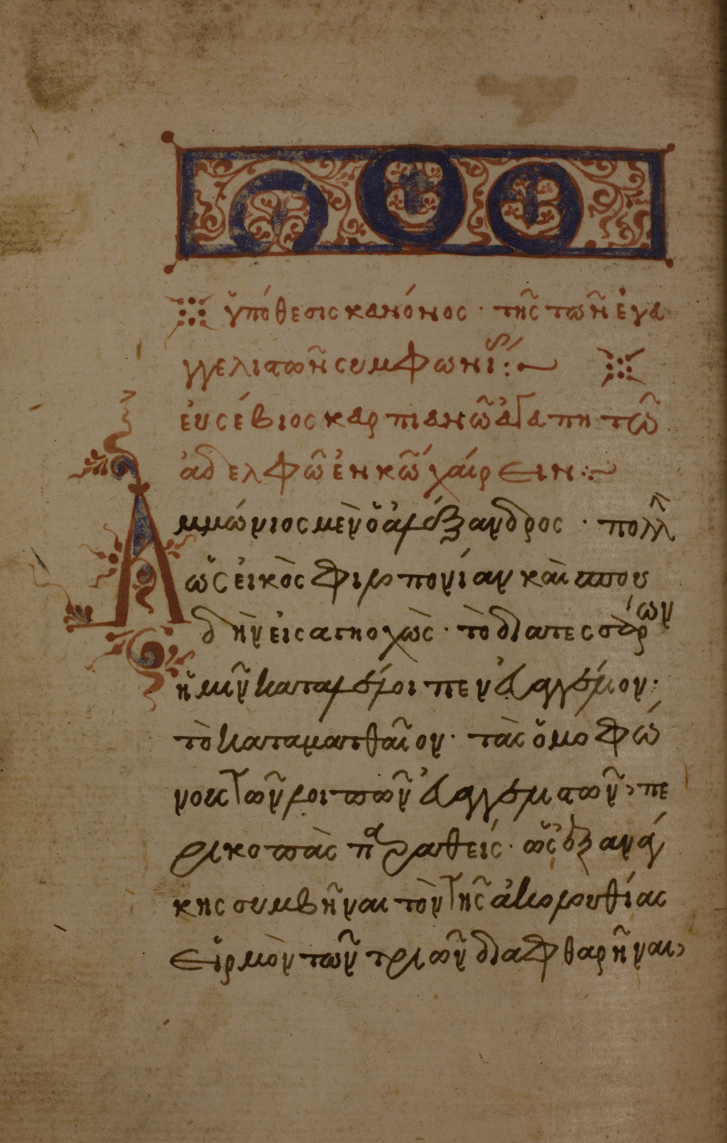 The first page of the Gospel of Matthew; decorated headpiece